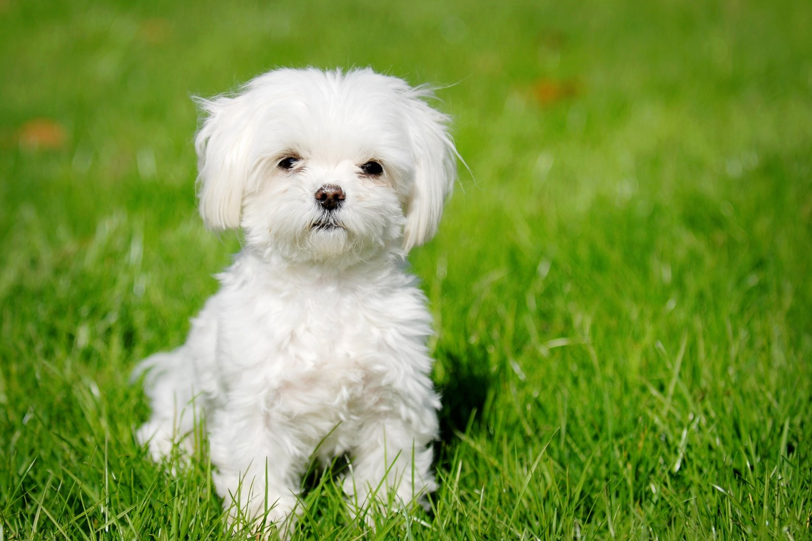 Our little dog, Emily, became gravely ill last night. The vet said she contracted a virus in her brain. She was 4 pounds of love and was a wonderful part of our family for 6 years. She always acted like a much larger dog, never affraid to "take on" another dog, rabbit or squirrel! She even warmed up to Coco's playful ways. She was always happy to see us, even if we were gone for just a few minutes! She knew only a few tricks, sit, lie down and stay- the staples of being a good dog! She was always trying to please us. Well most times trying to please, there were those times when she got right inside of a garbage bag...ending up with a full belly and coffee grounds all over her face. Our hearts are heavy and we will miss "The Emmers" dearly. Death is nothing at all. I have only slipped away into the next room. I am I, and you are you. Whatever we were to each other, that we still are. Call me by my old familiar name, speak to me in the easy way that you always used. Put no difference in your tone, wear no forced air of solemnity or sorrow. Laugh as we always laughed at the little jokes we enjoyed together. Play, smile, think of me, pray for me. Let my name be ever the household word that it always was, let it be spoken without effect, without the trace of a shadow on it. Life means all that it ever meant. It is the same as it ever was; there is unbroken continuity. Why should I be out of mind because I am out of sight? I am waiting for you, for an interval,somewhere very near, just round the corner. All is well. Henry Scott Holland (1847-1918) Canon of St. Paul’s Cathedral London